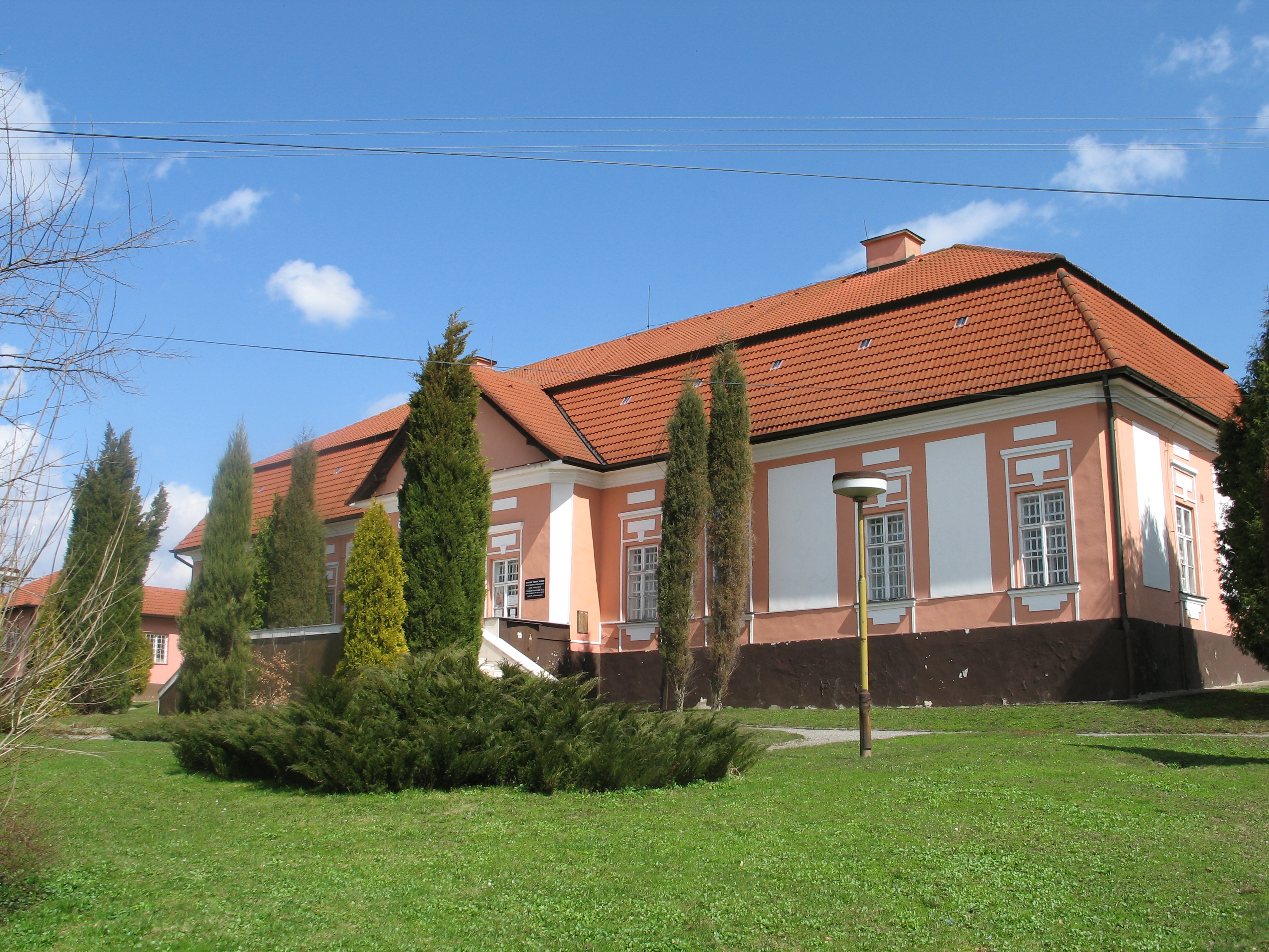 Galery of art in Dezider Milly (Svidnik, in Slovakia)